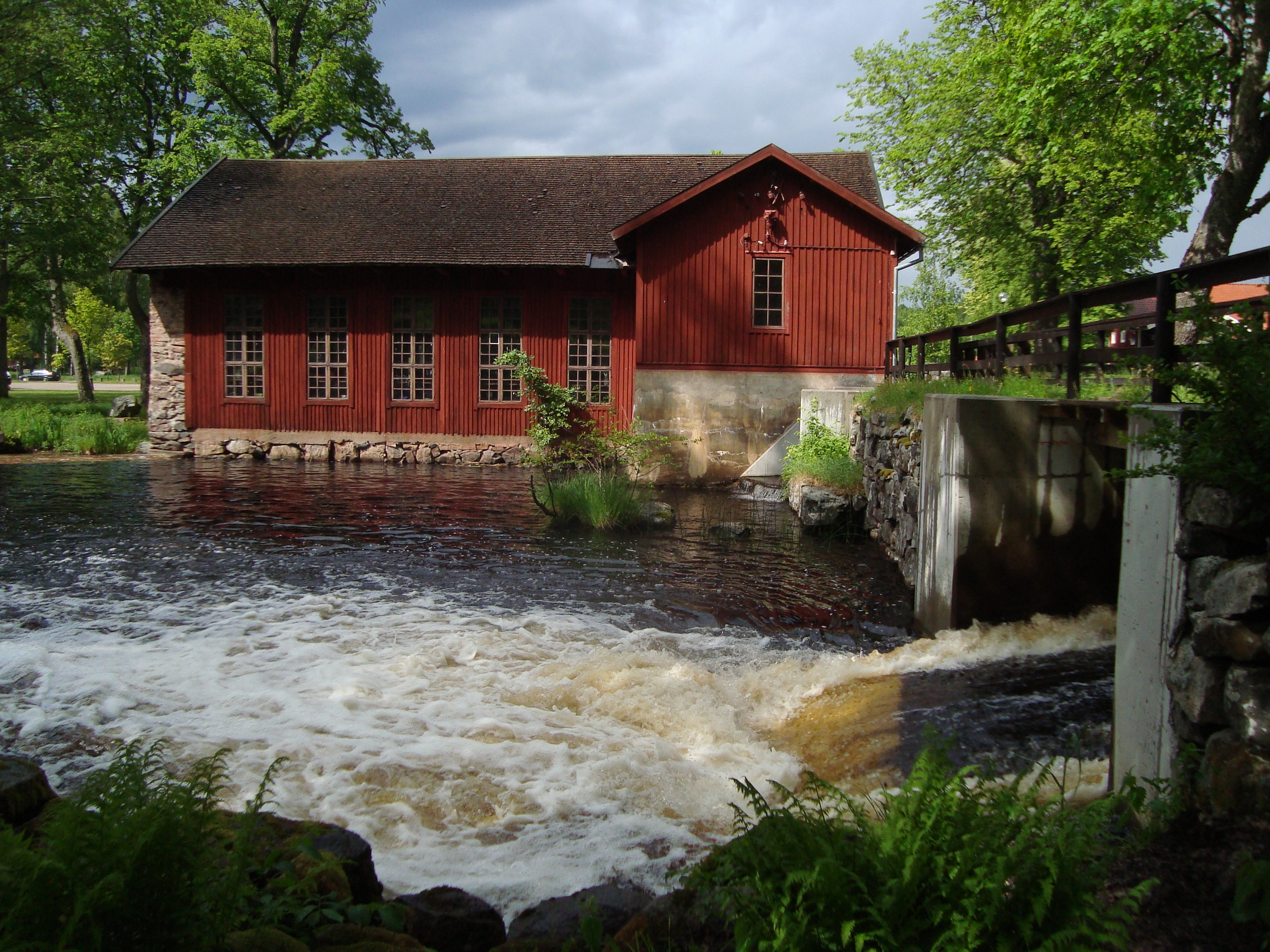 Former ironworks of Högbo, Sandviken Municipality, Sweden